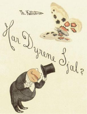 Theodor Kittelsen (1857-1914): Cover of har Dyrene Sjæl (Do animals have souls?), 1893